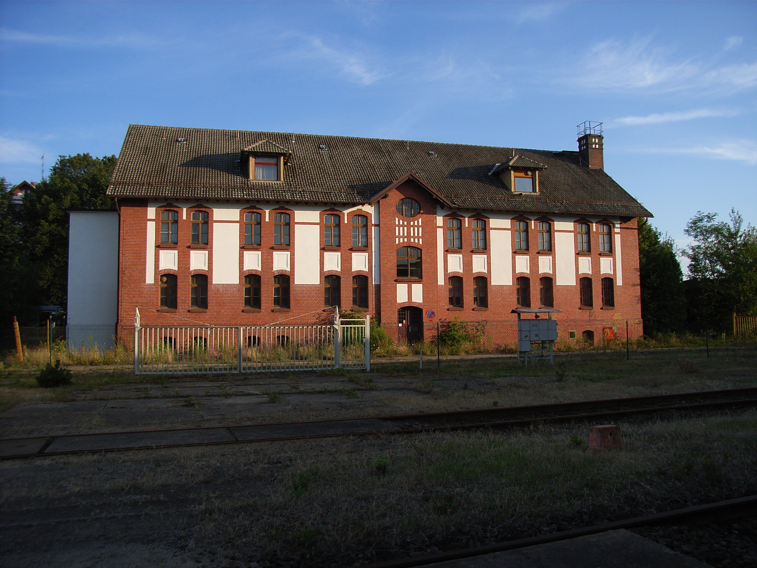 old house of the BW Schlauroth, Görlitz, Saxony